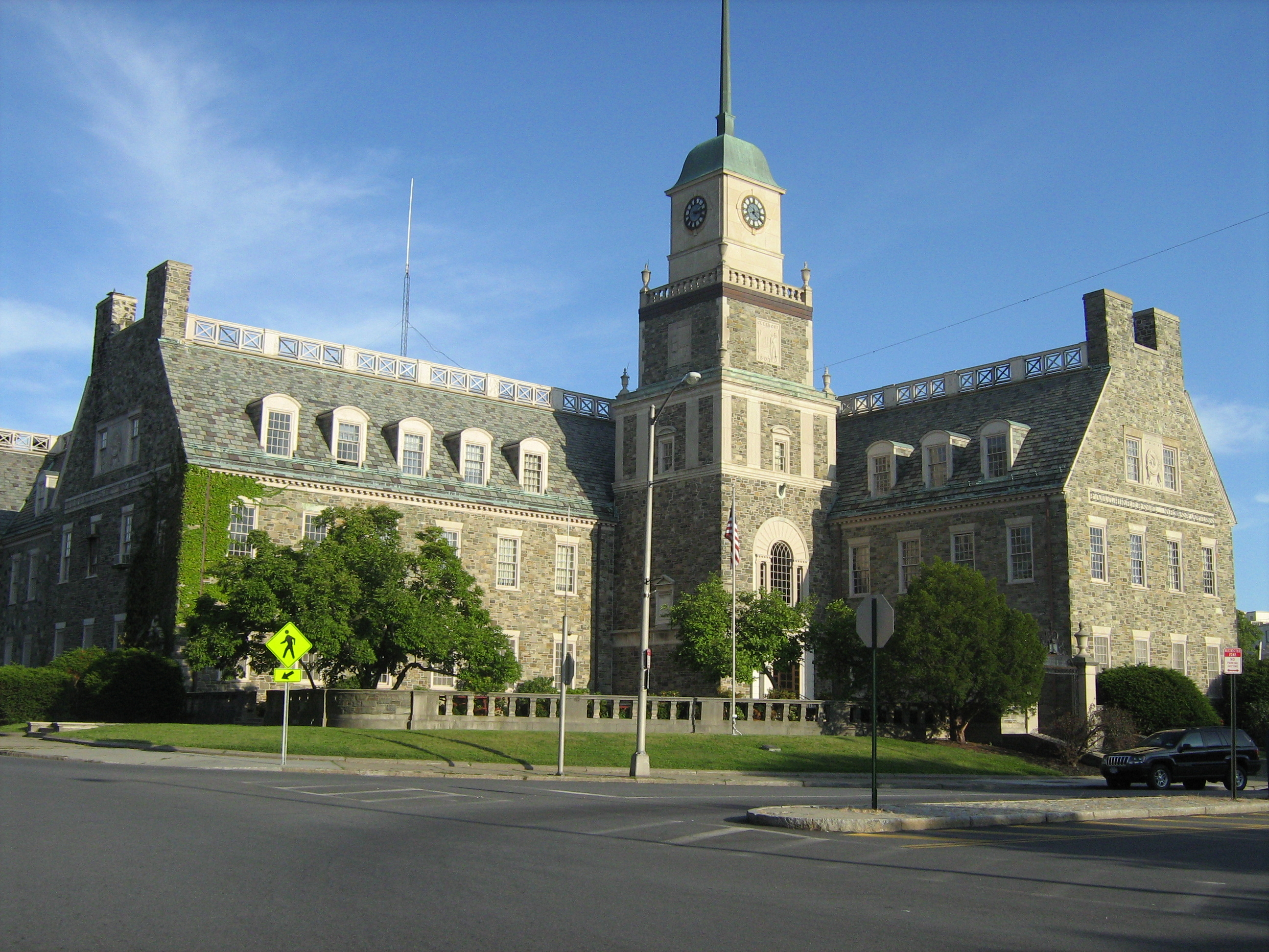 Front of Poughkeepsie Journal building. Oldest newspaper in NY, third oldest in the US.